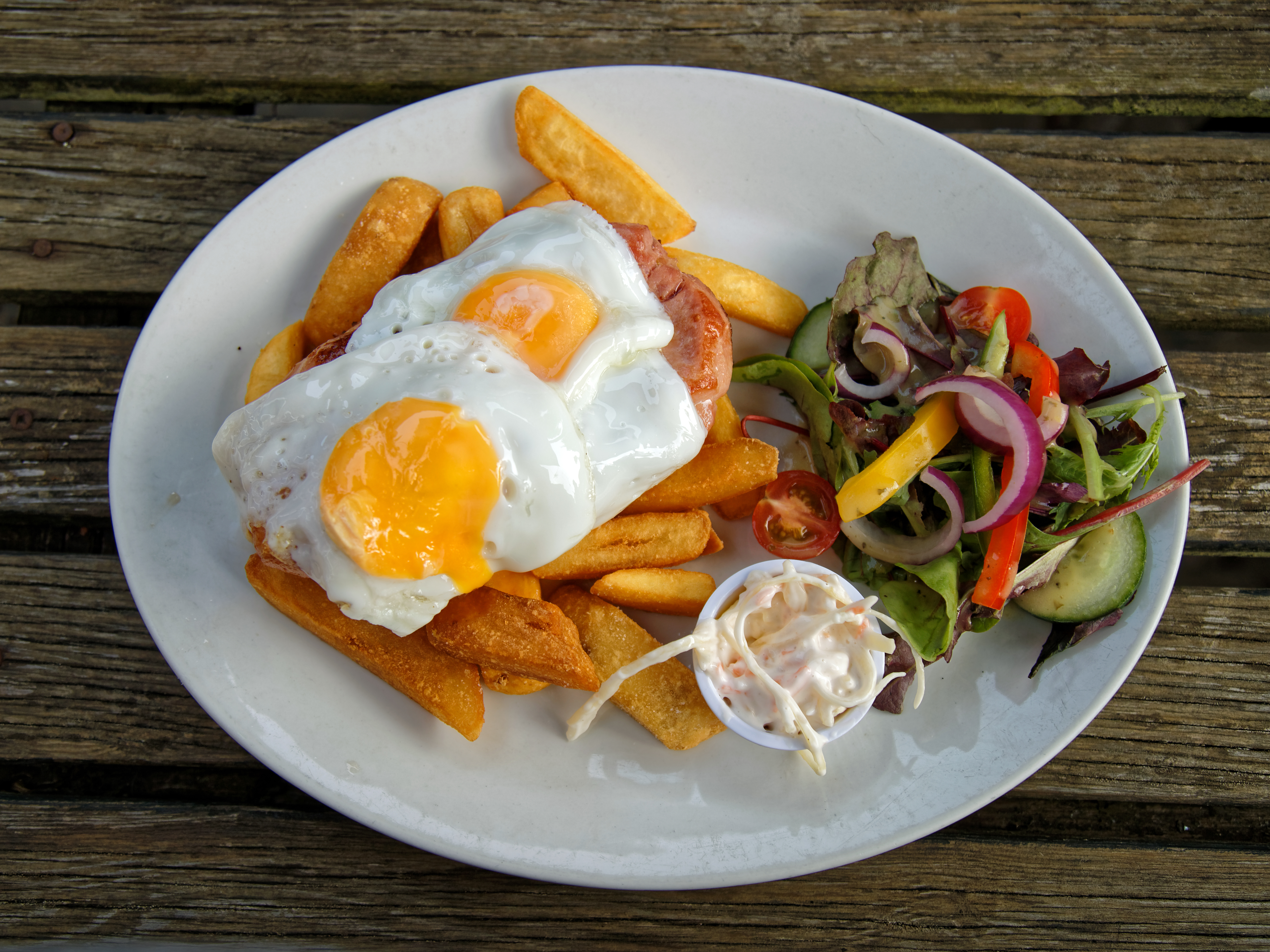 Gammon, double egg and triple-fried chips, with salad and coleslaw at the The Black Horse Inn public house on Nuthurst Street in Nuthurst, West Sussex, England.Camera: Canon EOS 6D Mark II with Canon EF 24-105mm F4L IS USM lens.Software: RAW file lens-corrected, optimized and converted to JPEG with DxO PhotoLab, and likely further optimized and/or cropped and/or spun with Adobe Photoshop CS2.